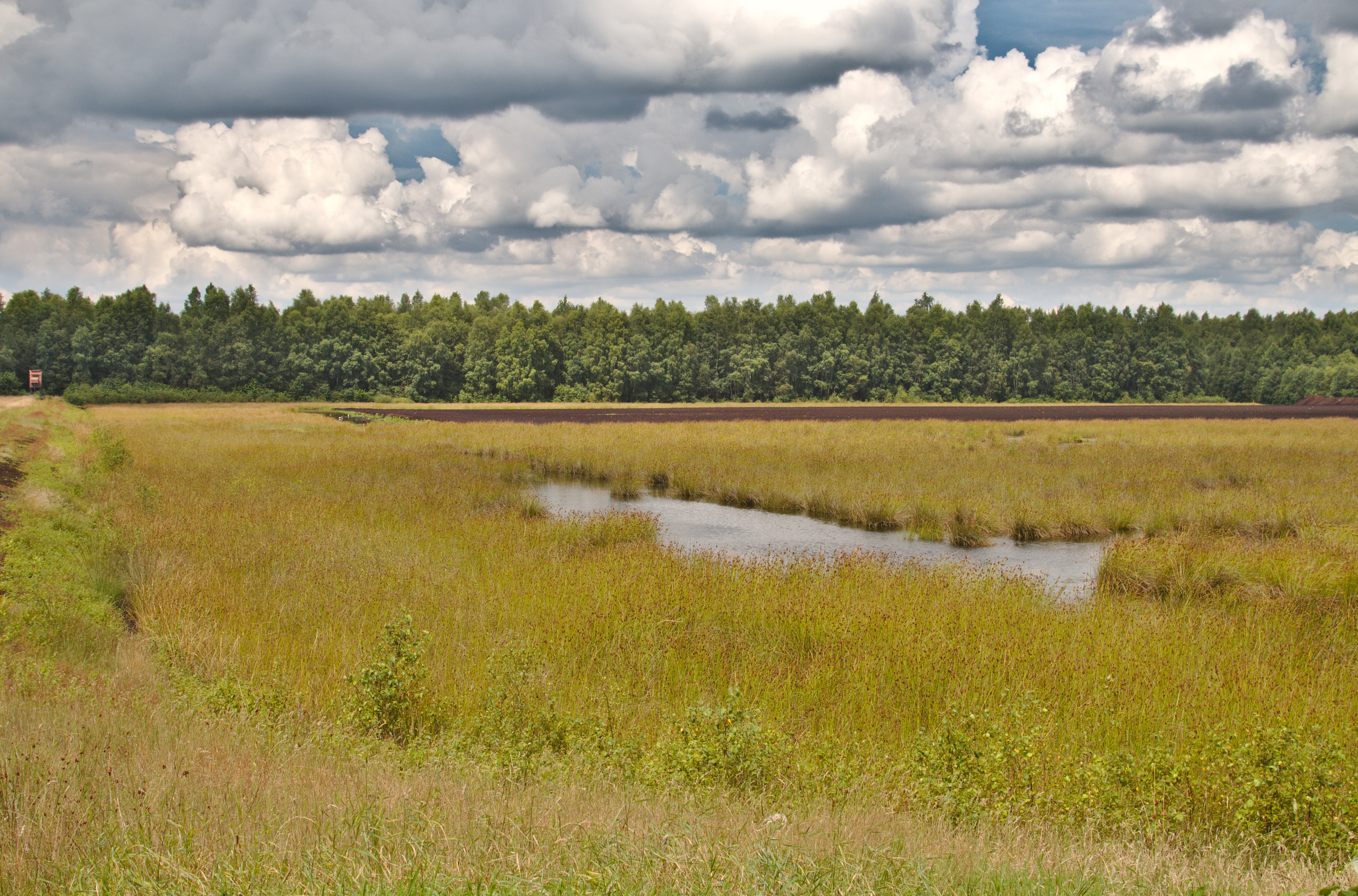 The central area of the "Benthullener Moor" bogs (Benthullen village, Wardenburg municipality, Lower saxony, Germany) with depleted and partially rehydrated peat cuts, seen in the northeastern direction.